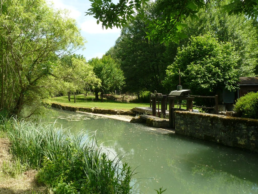 the river Sonnette at Beaulieu, Charente, France